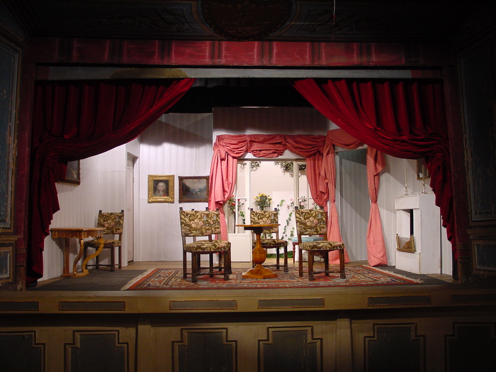 stage design of the town theatre in Grein